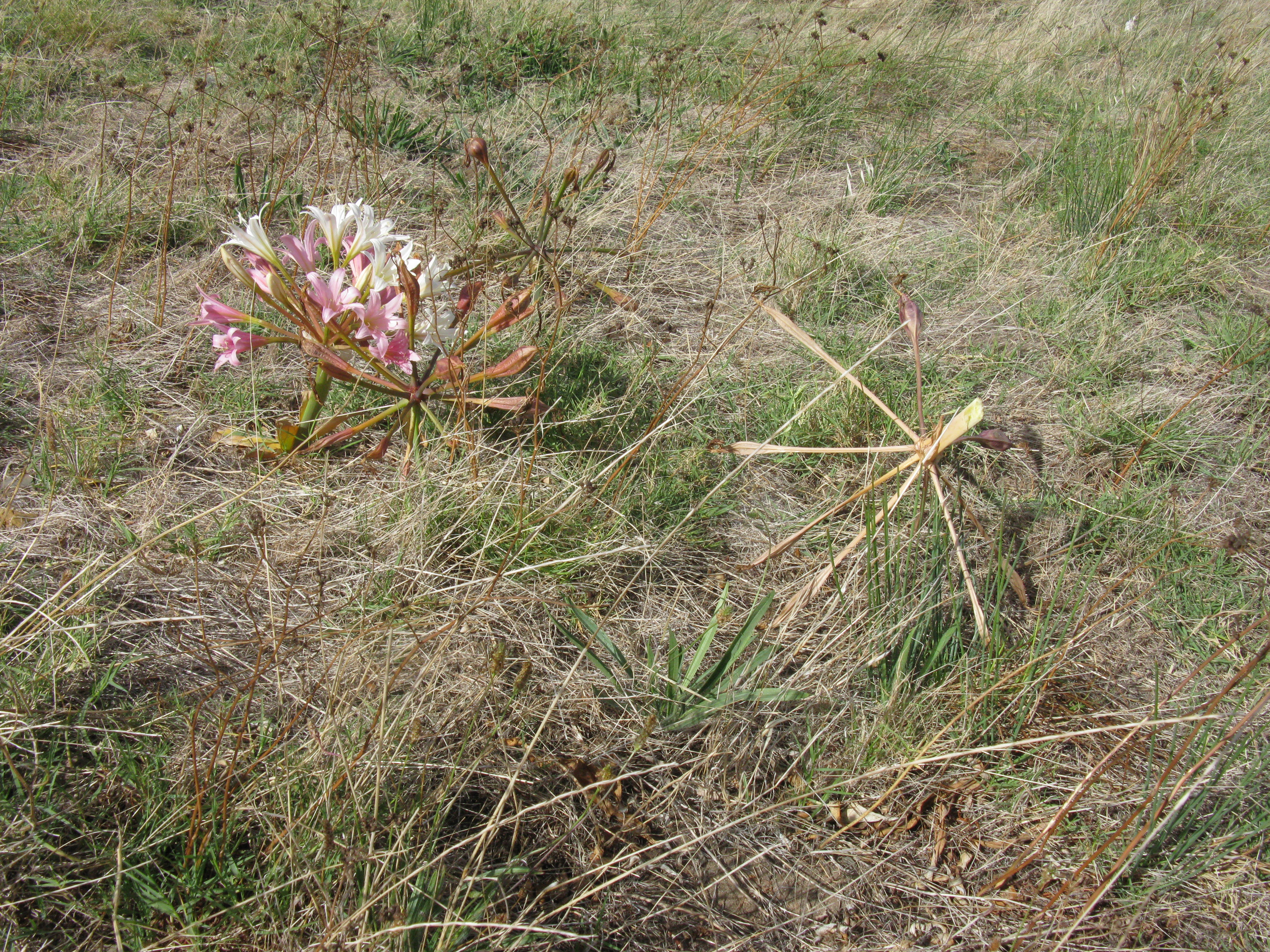 Ammocharis longifolia, Flowering inflorescence, fruiting inflorescence, and tumbleweed inflorescence (or infruitescence)